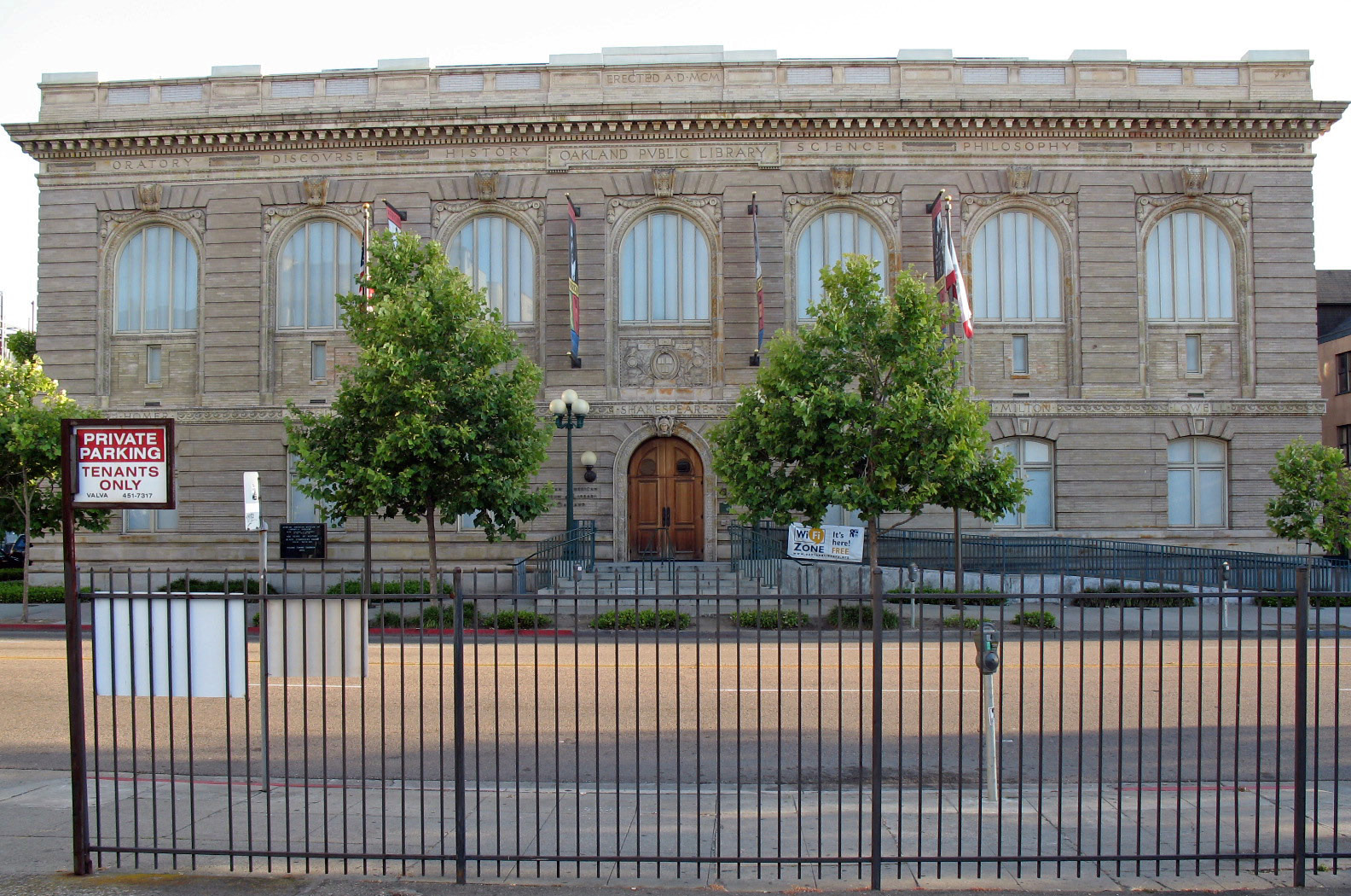 National Register of Historic Places listings in Alameda County, California. Oakland Public Library (now the African American Museum and Library), 659 14th St, Oakland, CA. Photographed from the north side of 14th St., between Castro St. and Martin Luther King Jr. Way.